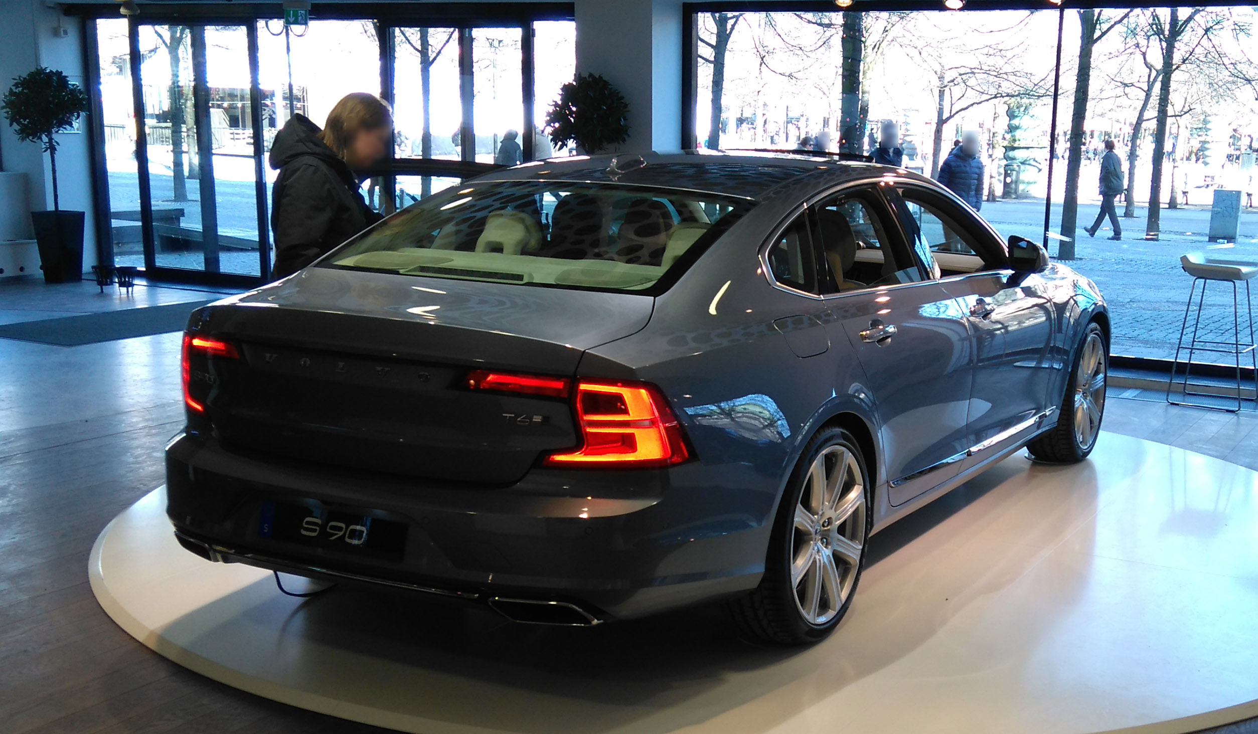 2016 Volvo S90 T6 Inscription